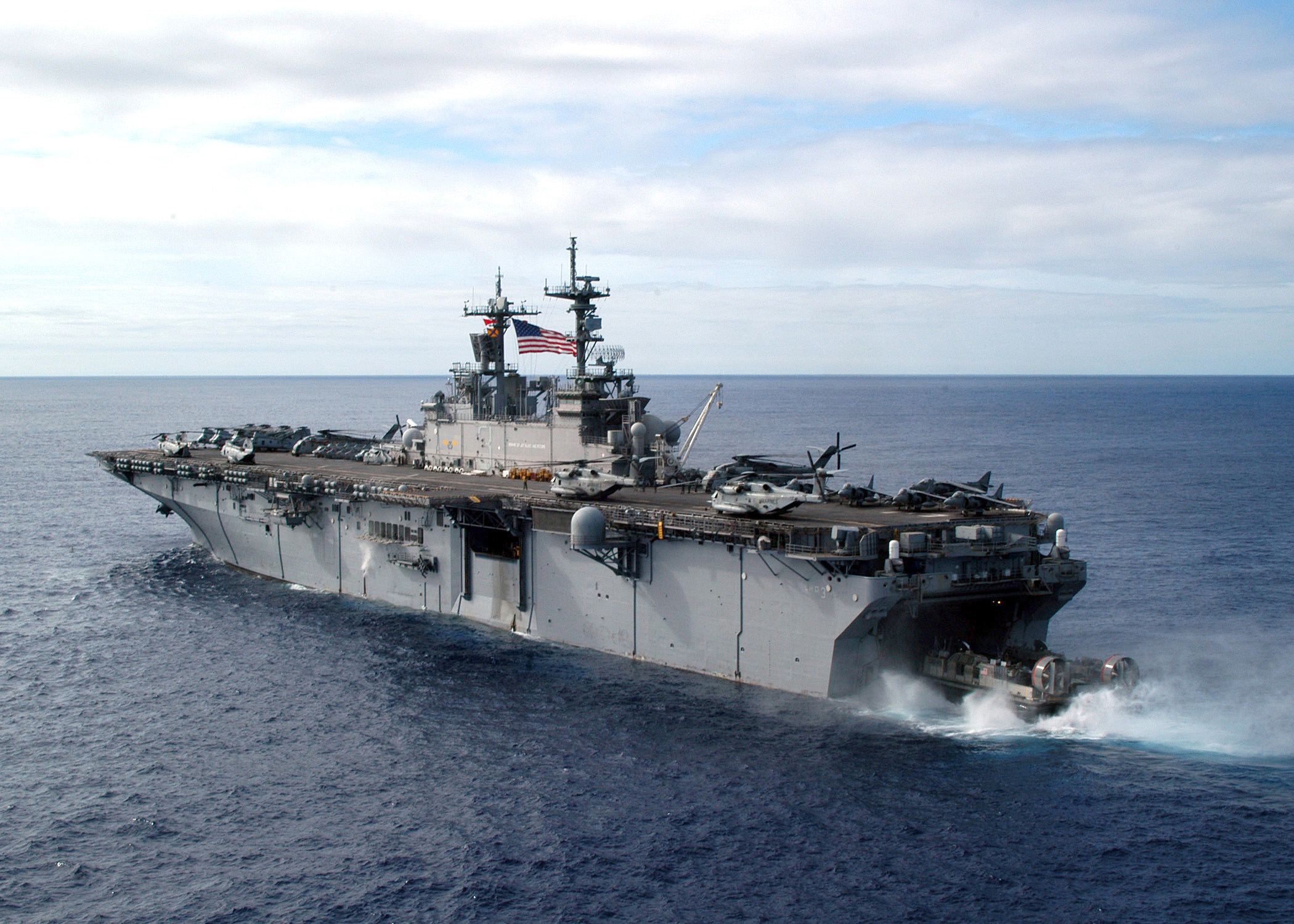 Atlantic Ocean (Sept. 17, 2005) - A Landing Craft, Air Cushion (LCAC) assigned to Assault Craft Unit Four (ACU-4), exits the well deck of the amphibious assault ship USS Kearsarge (LHD 3). Kearsarge and embarked ACU-4 are returning to their homeport of Naval Station Norfolk, Va., after a regularly scheduled deployment in support of the Global War on Terrorism. U.S. Navy photo by Photographer's Mate Airman Sarah E. Ard (RELEASED)